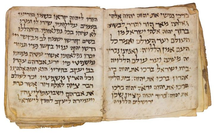 One of the oldest Sidurim (IX c.)